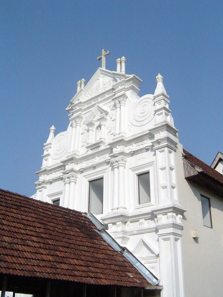 Cheria Pally Church outside in Kottayam, Kerala, India selfmade by pitichinaccio, 26 Dec 2005